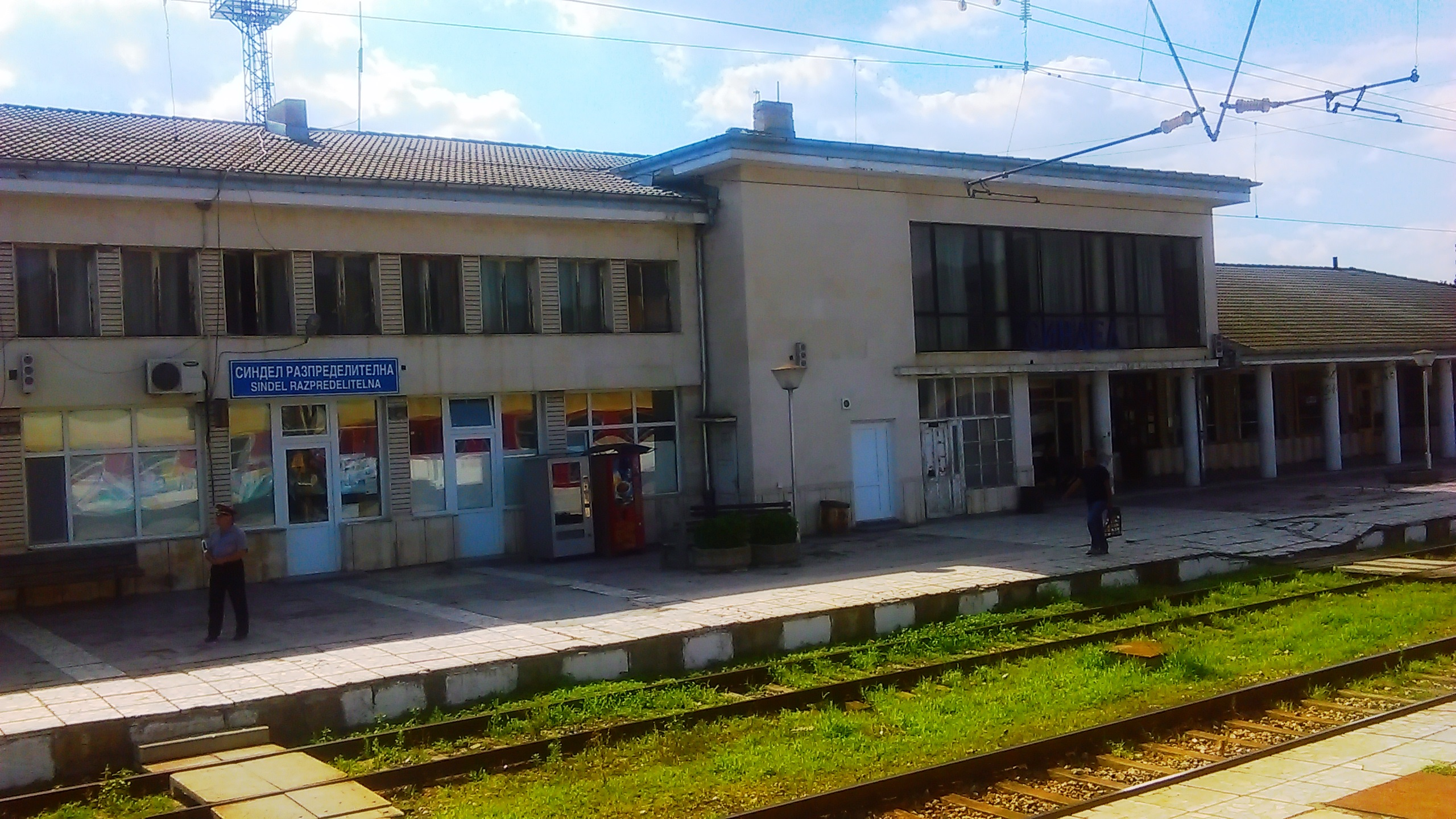 Sindel railway station, Varna province, Bulgaria